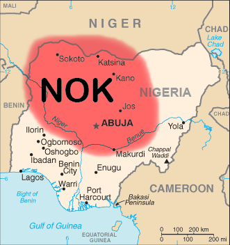 Map of Nok culture